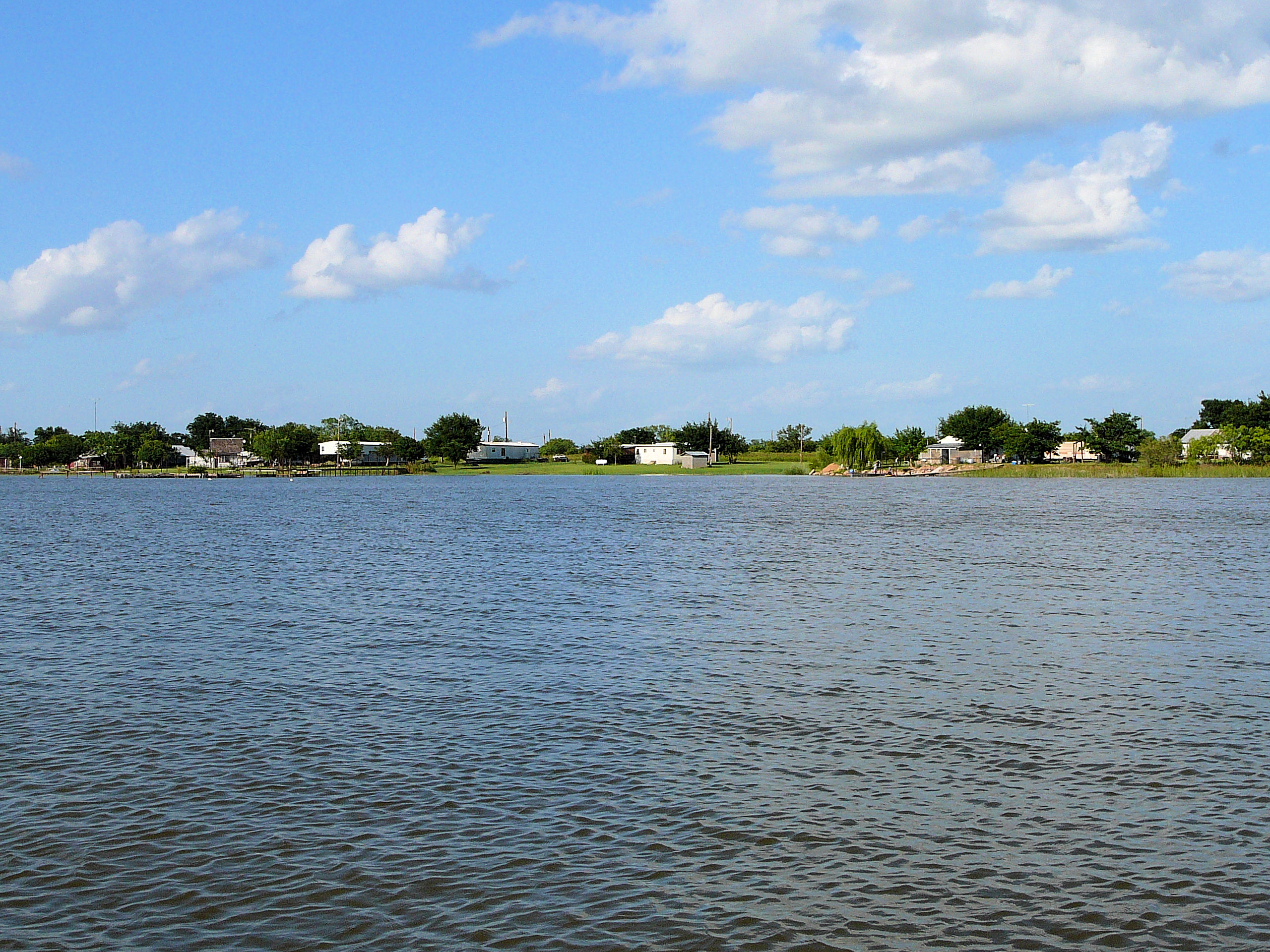 Lake Stamford, Haskell County, Texas, looking east. Taken from the Stamford Marina when the lake was almost 100% full.